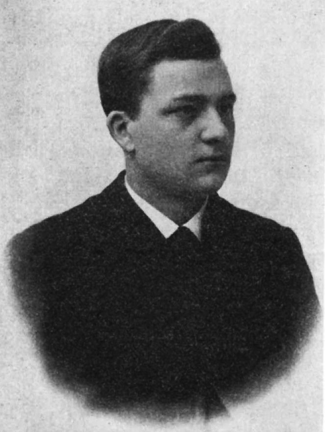 Portrait of swedish politician, race biologist Alfred Petrén (1867-1964).